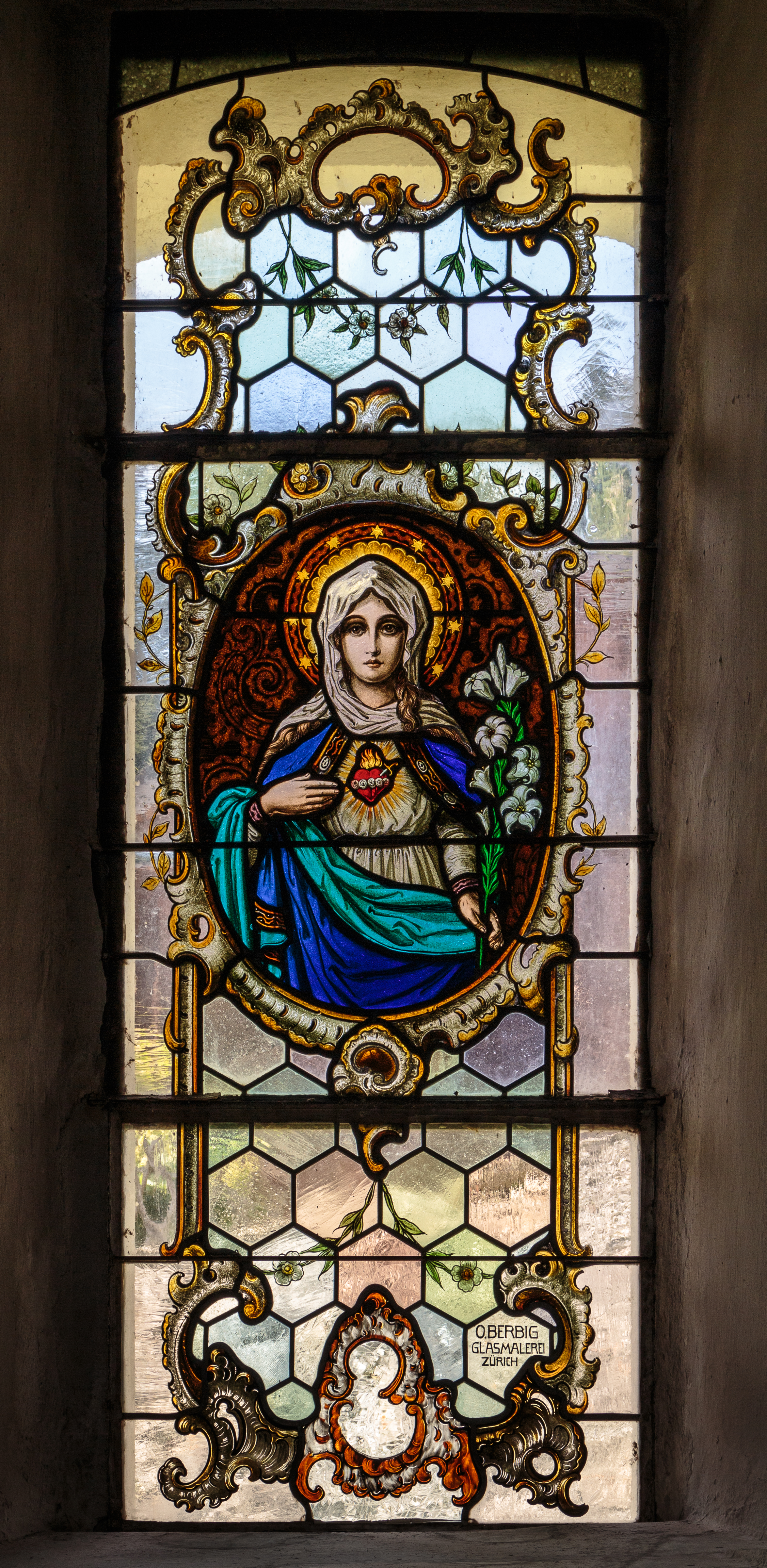 Stained glass window "The Immaculate Heart of Mary" by Oskar Berbig (1884–1930), Katholische Pfarrkirche St. Julitta und Quiricus, Andiast.